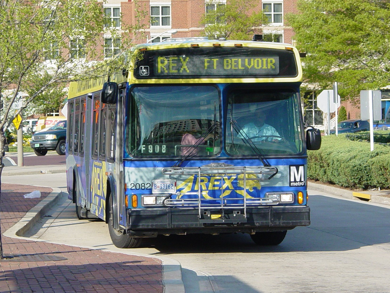 An Orion VI bus operated by Metrobus for REX service. Photo taken April 27, 2005 by Ben Schumin.